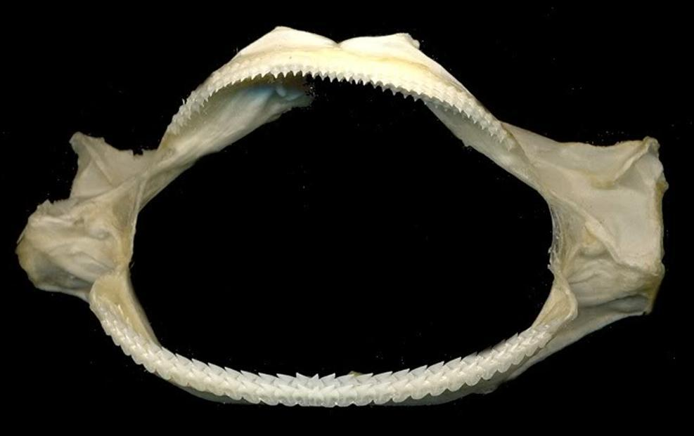 Centrophorus granulosus Gulper shark jaw